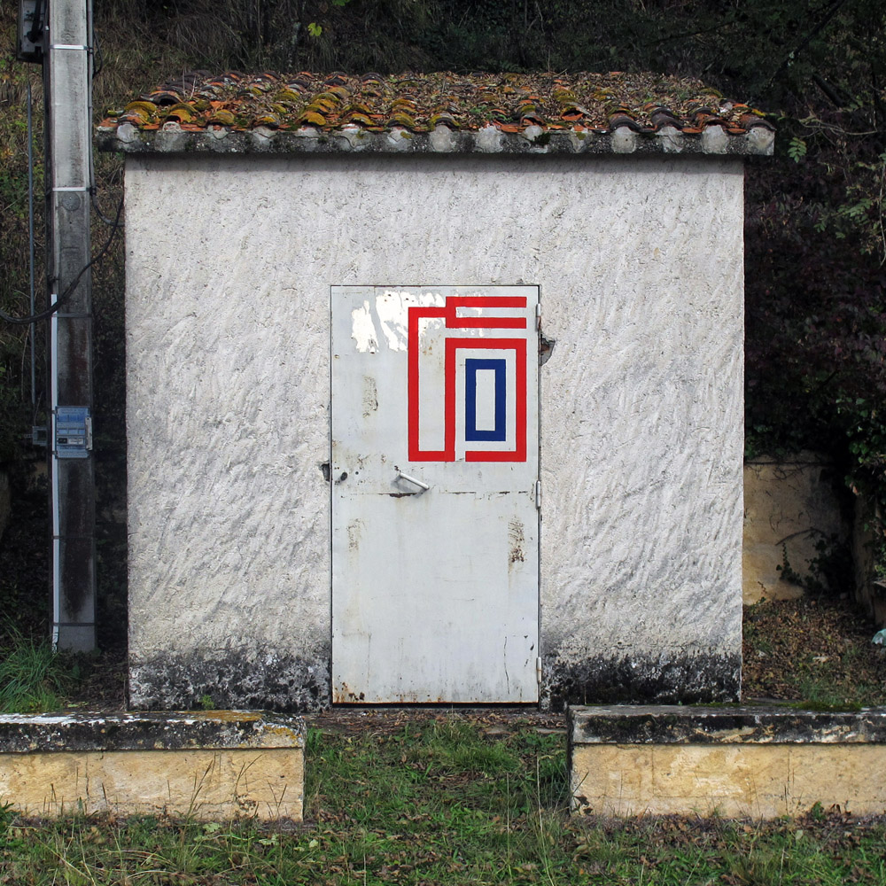 Eltono, street painting in France, 2014